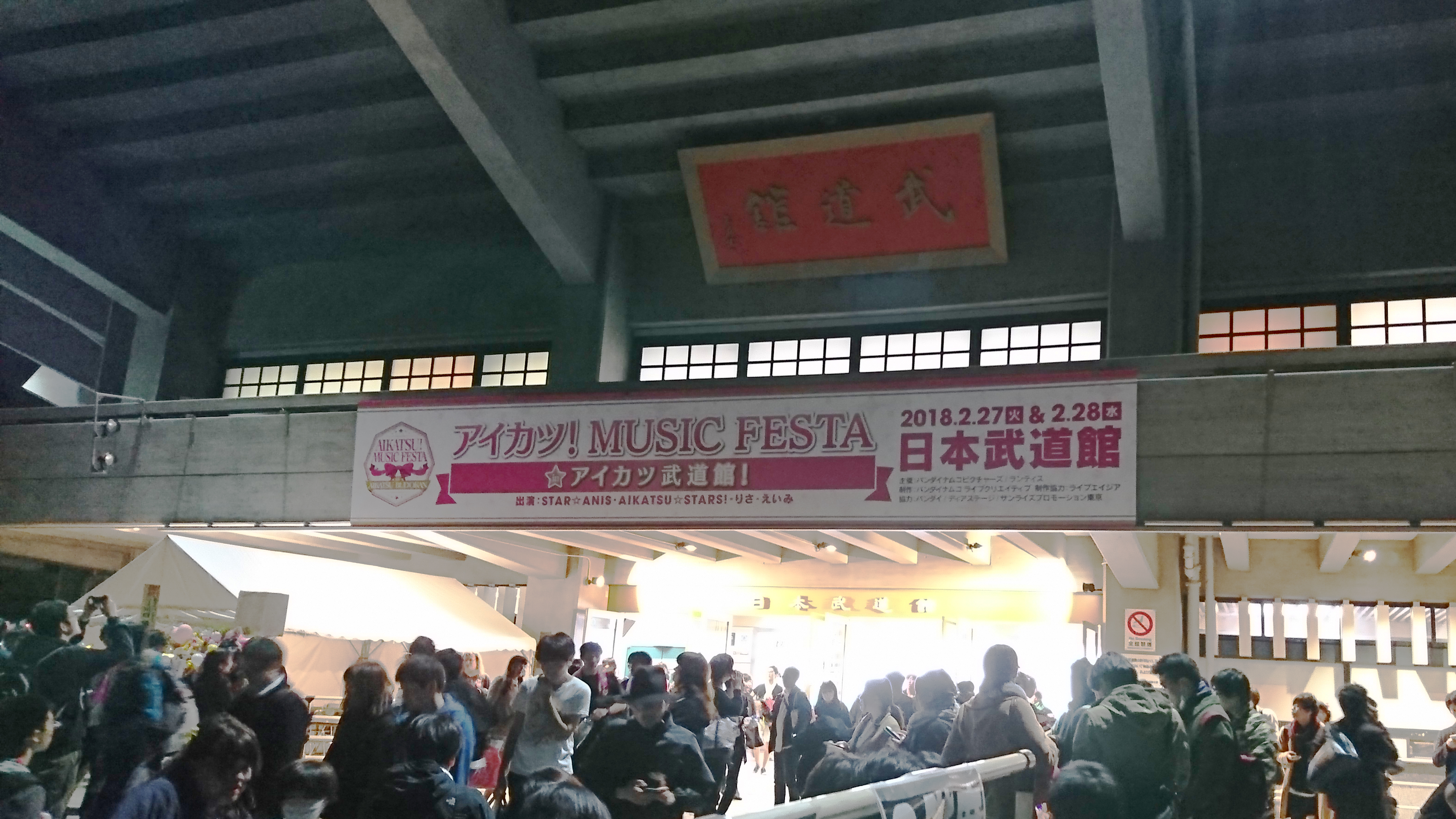 The title logo used in Aikatsu! MUSIC FESTA in Aikatsu Budokan!. This Aikatsu! official event was held in Nippon Budōkan, Tokyo, Japan for two days from February 27, 2018. The photo was taken on the 1st day of the event (February 27, 2018) by User:stck w.